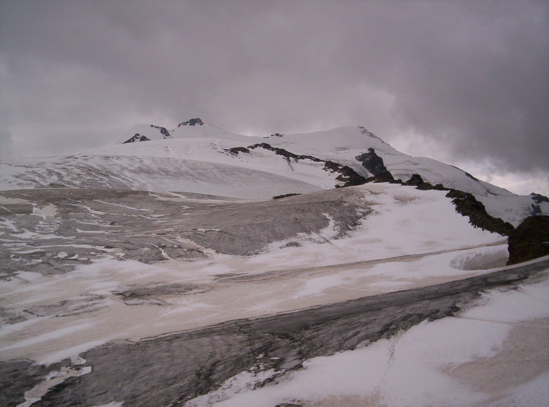 Mount Cevedale (3769 m, 12365 ft) is the third highest summit of Ortler Alps, a section of Rhaetian Alps in Trentino, northern Italy.